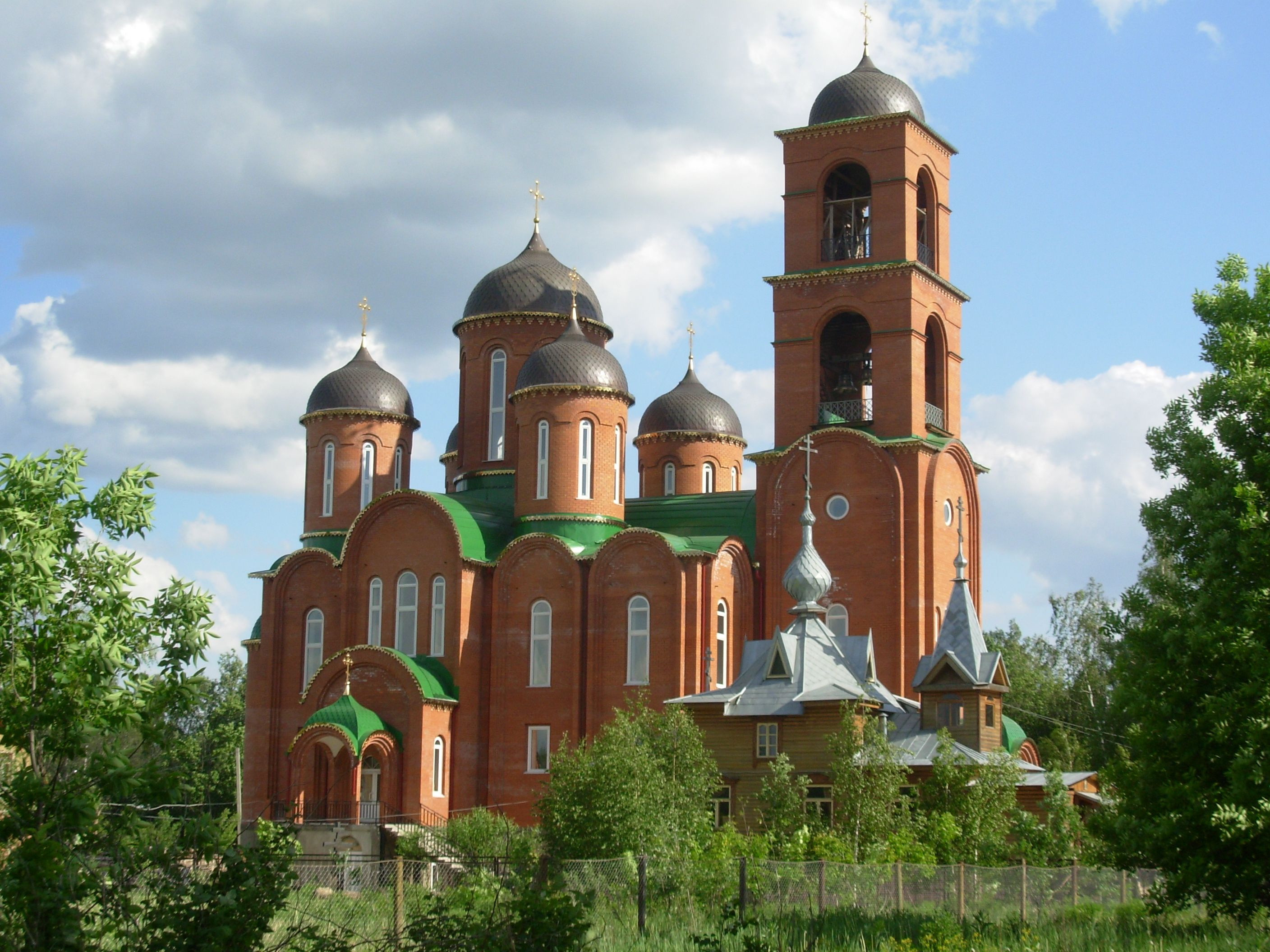 church